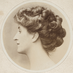 Dora Ohlfsen-Bagge, an Australian artist. The photograph was published in 1912 in "Pages for Everywoman: Miss Dora Ohlfsen", The Lone Hand, Vol. 12, No. 68, 2 December 1912, p. 131.